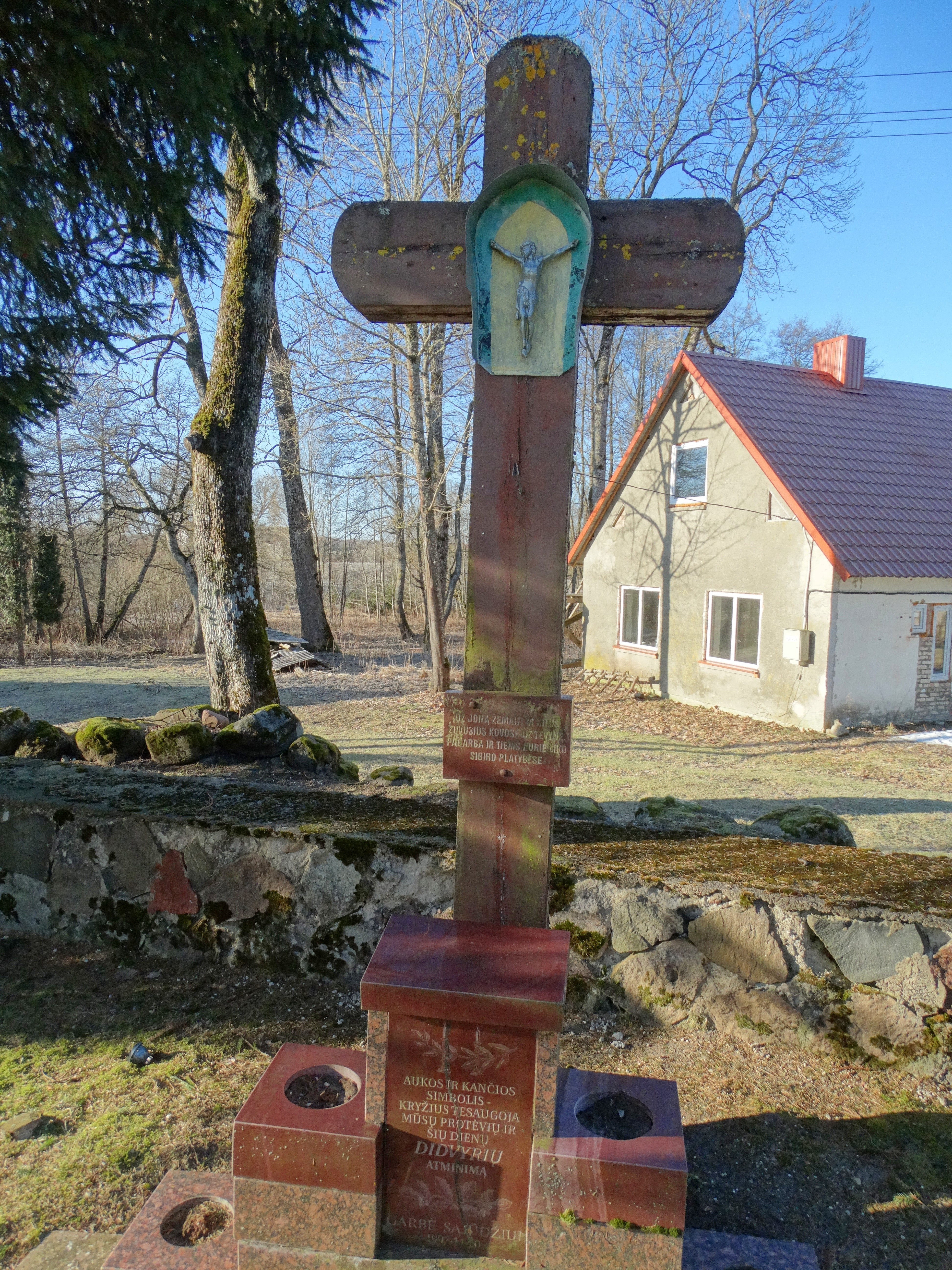 Catholic Church, Požerė, Šilalė District, Lithuania